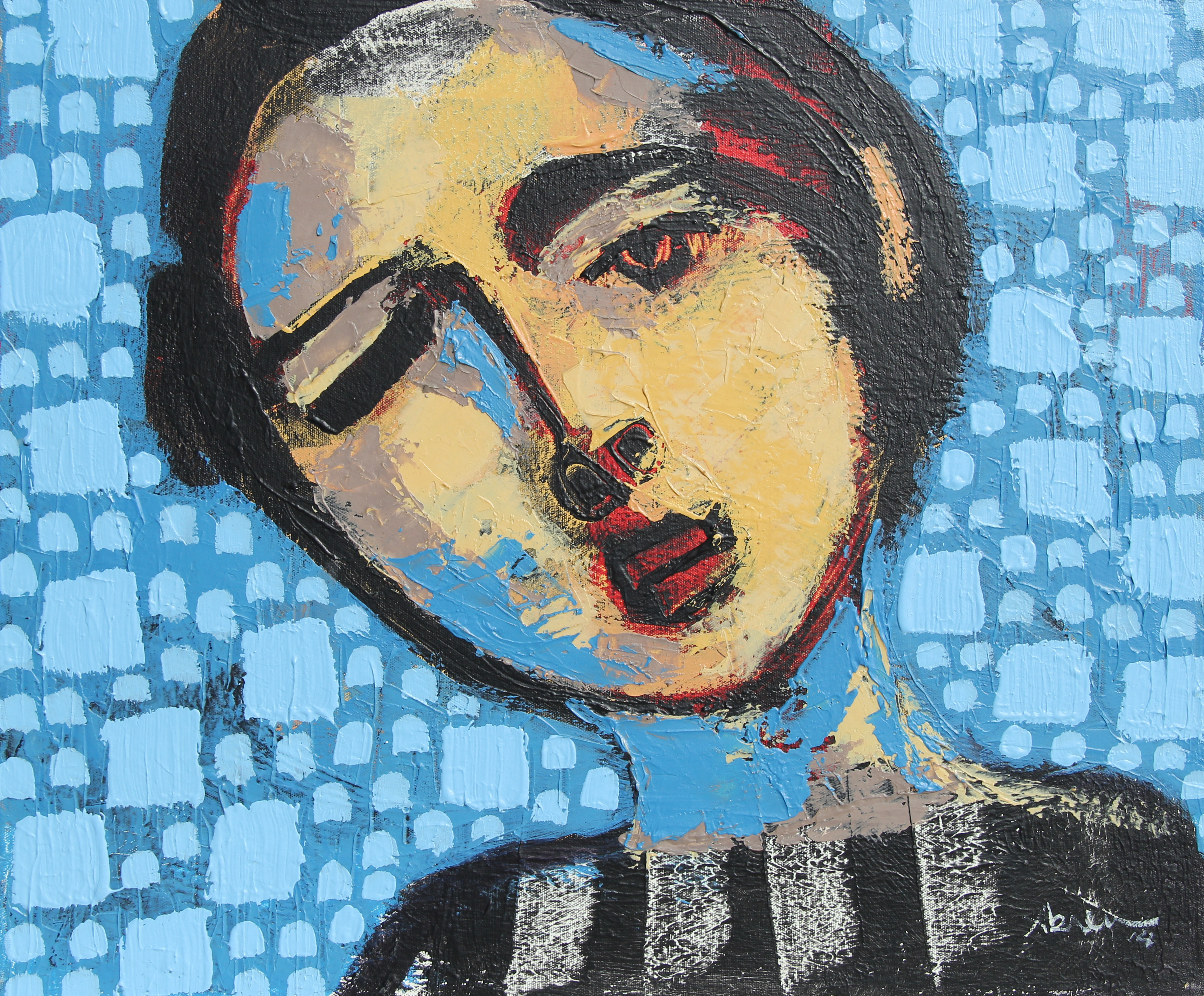 Estudio de Psico-Expresionismo Series by Oscar Abreu